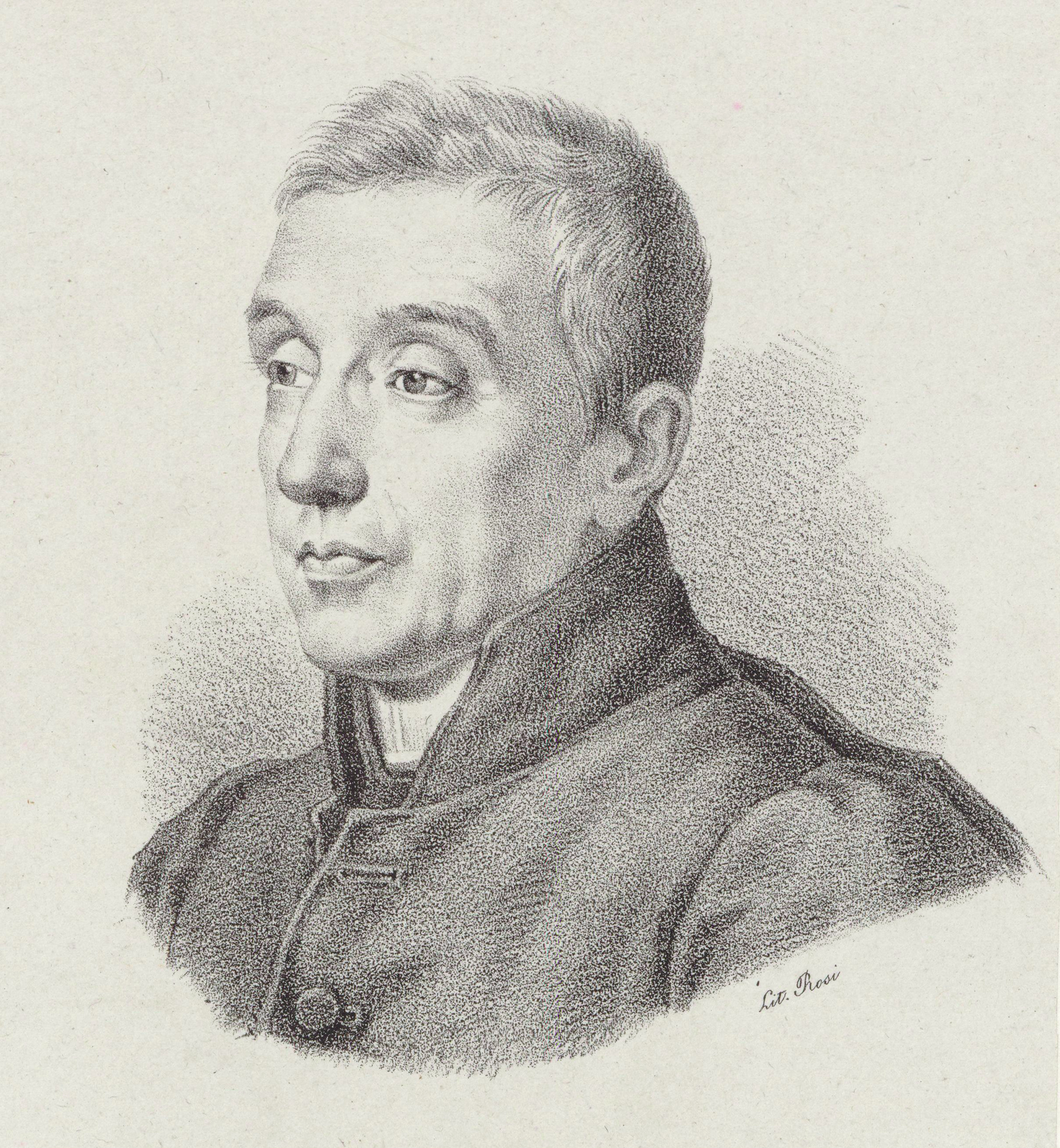 Depicted person: Fortunato Santini